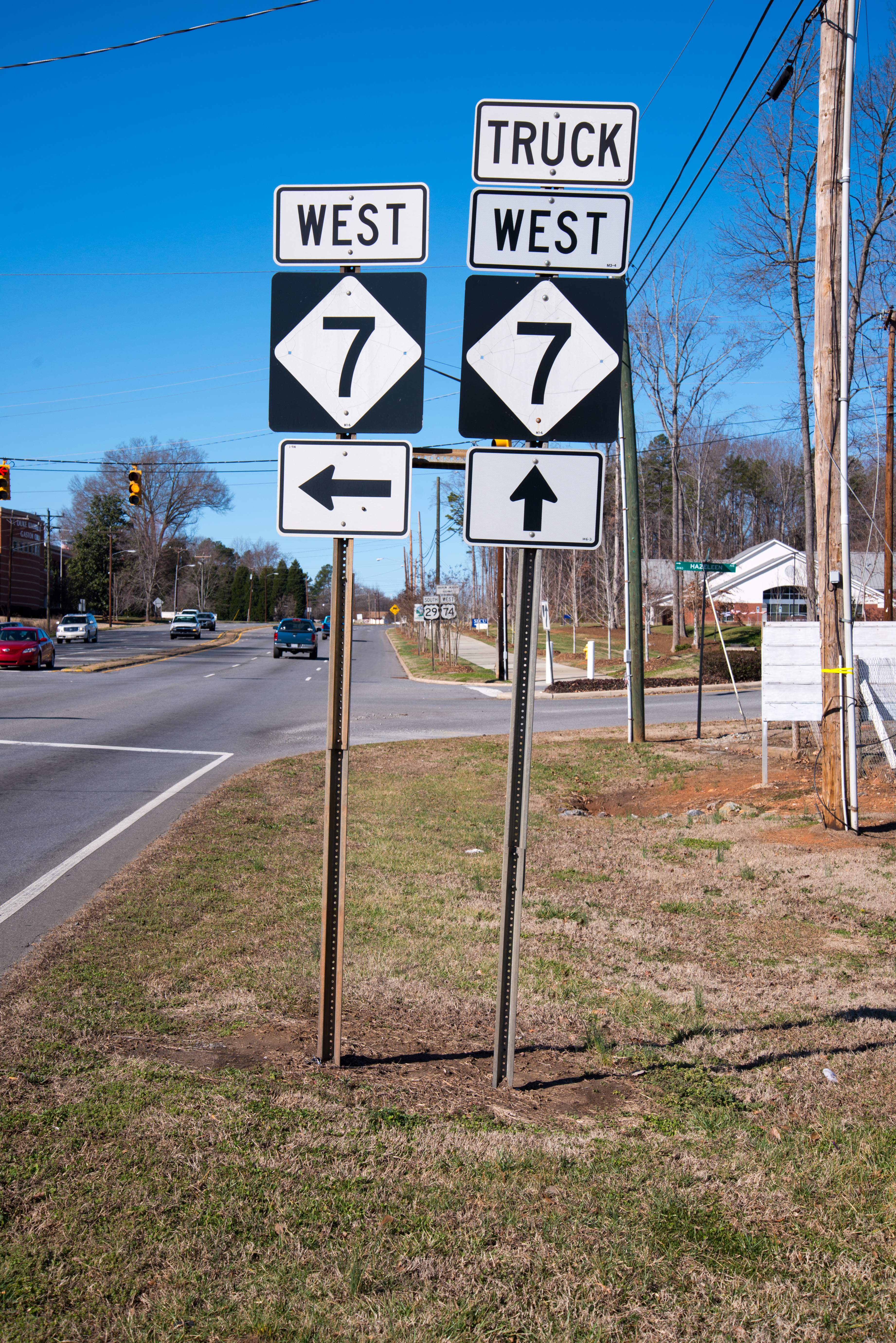 Directional signs along Wilkinson Boulevard for NC 7 and NC 7 Truck, in Belmont, North Carolina.